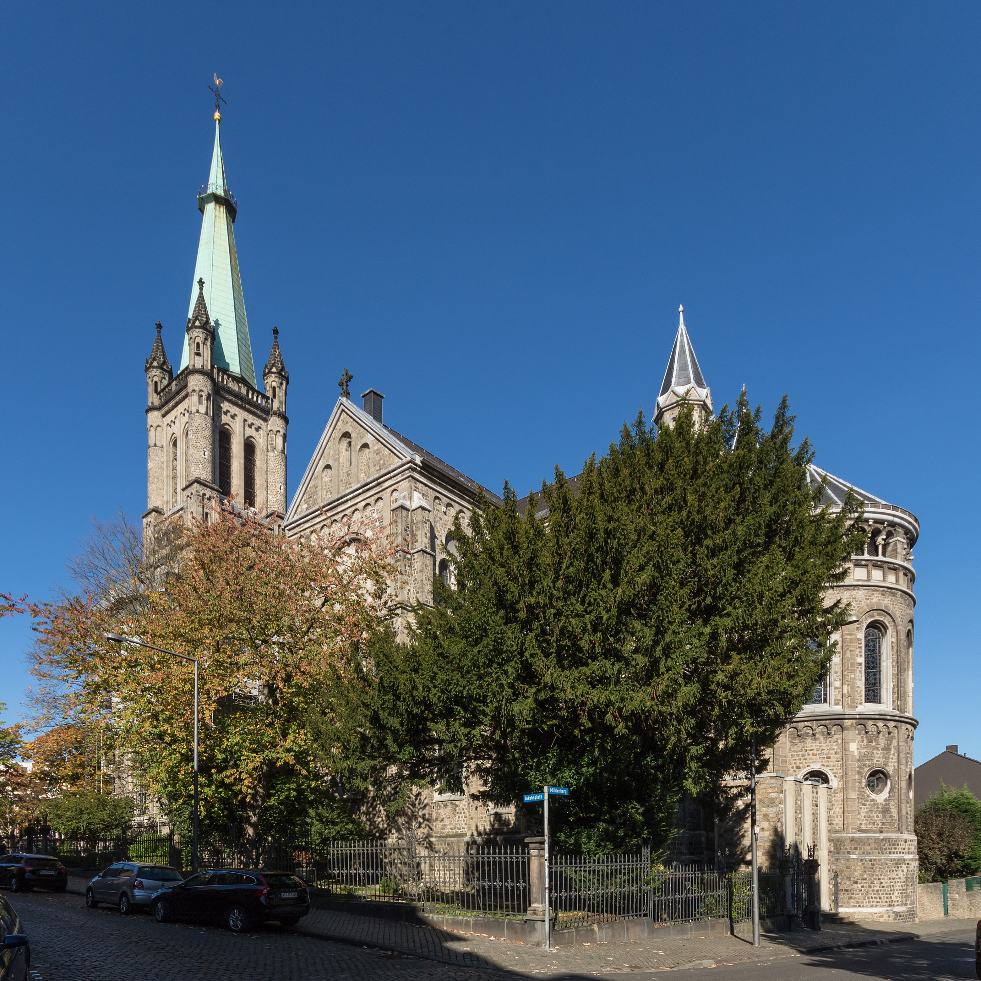 St. James Church in Aachen (Germany)